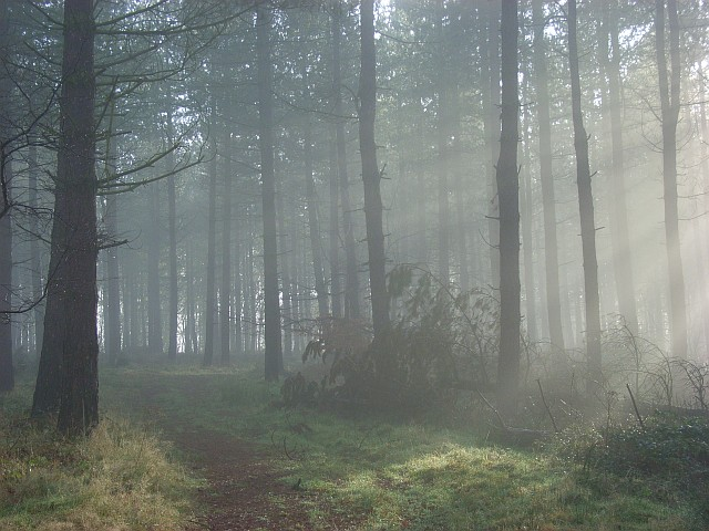 Balham's Wood, Stonor Sun shining through thin mist near the top of the wood.